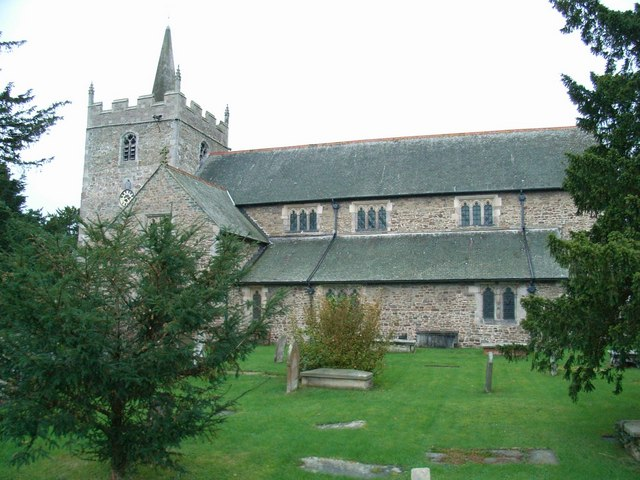 St. Aelhaiarn's Church, Guilsfield